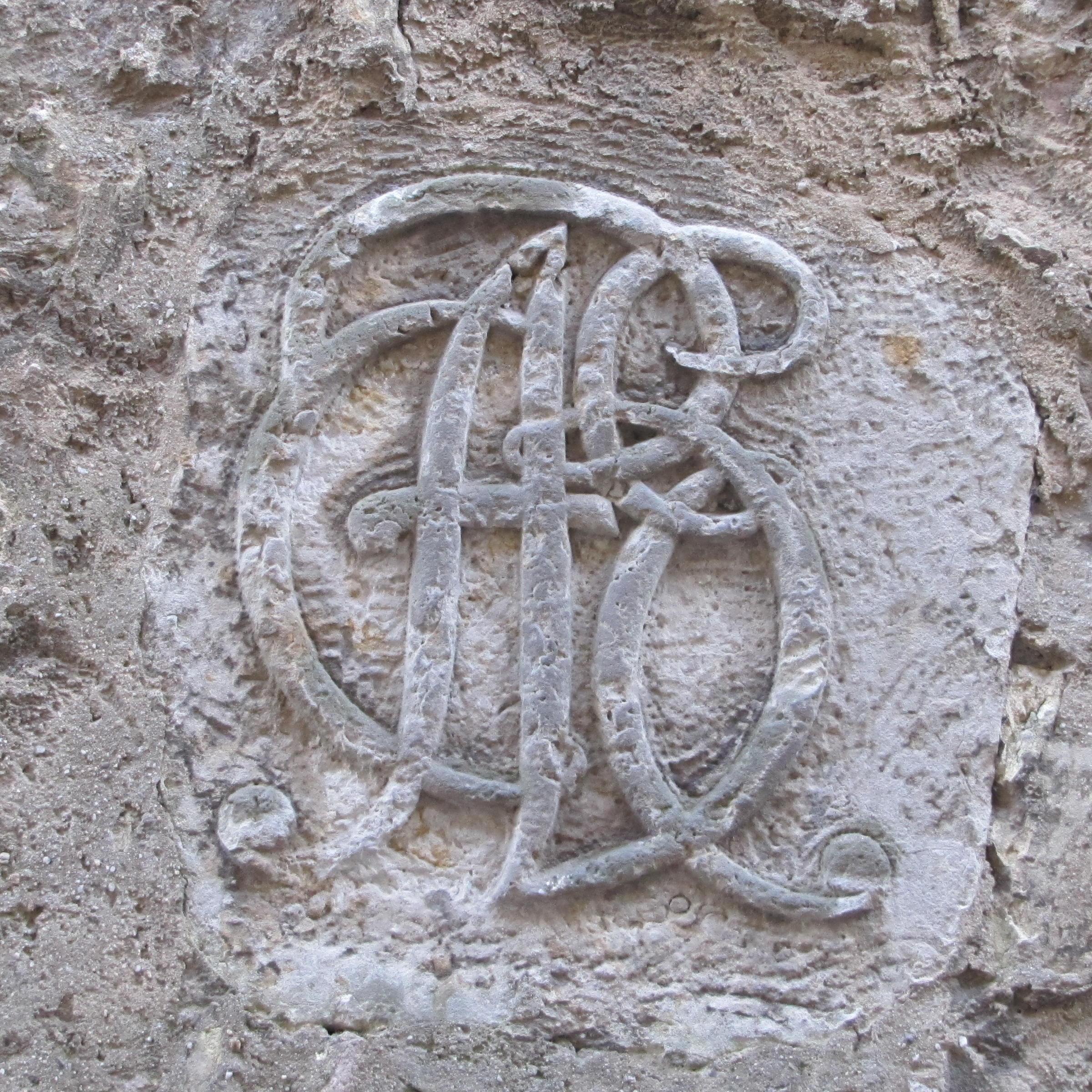 The Letter Stone in Meißen is a baroque relief of a monogram of the 17th century.